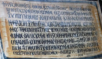 Tornik Monastery Inscription